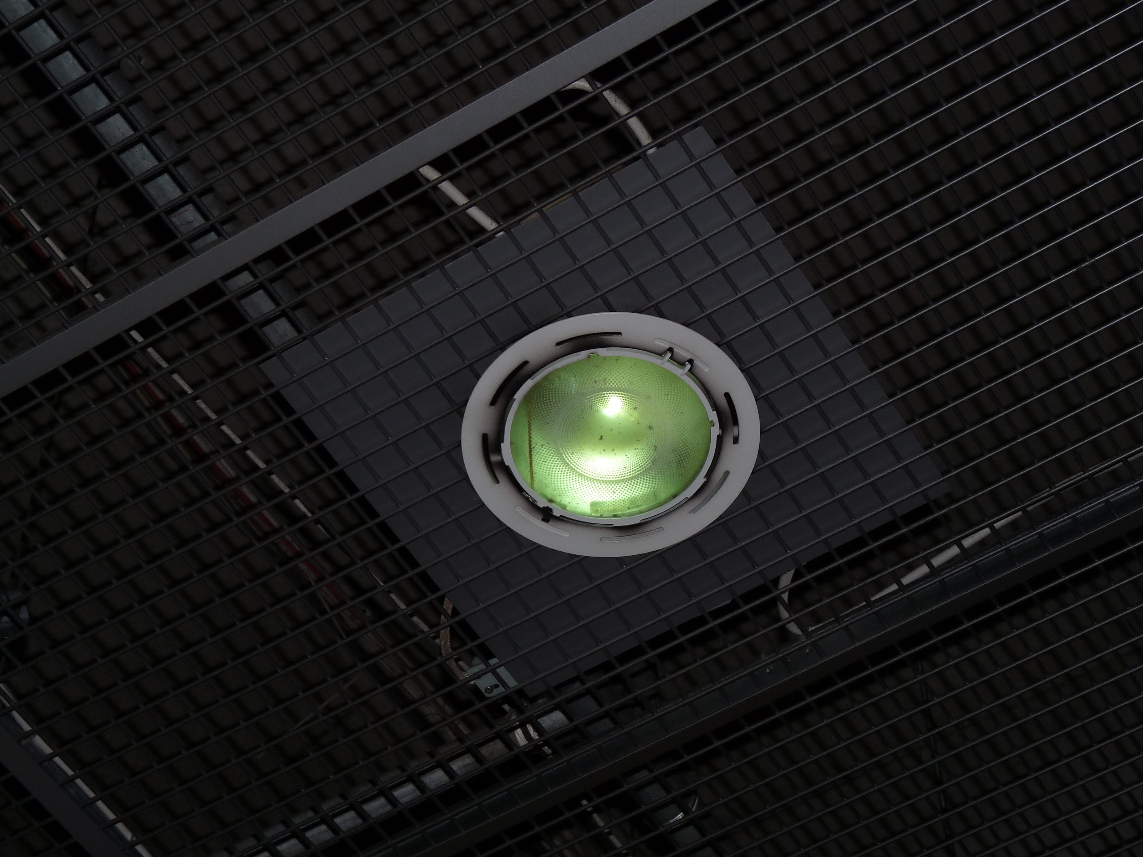 HMI lamp after 10000+ hours of work